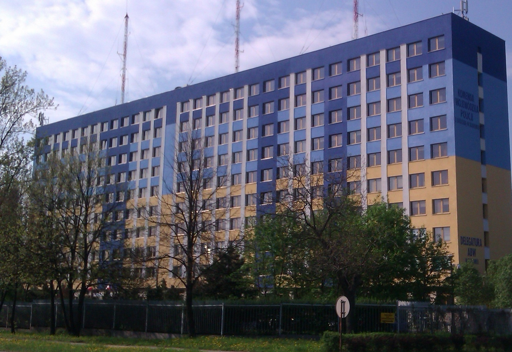 Renovated Headquarters of Masovian Voivodeship Police in Radom and Delegacy of ABW in Radom in 2013